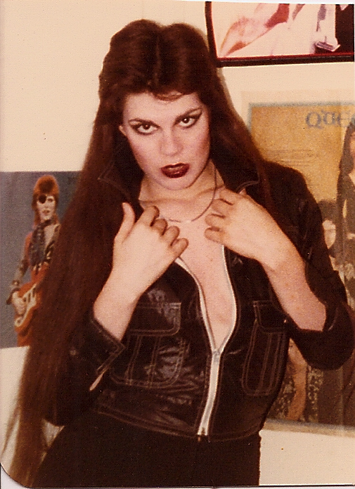 Pat Bag, Patricia Morrison in 1977. Photo by Alice Bag.